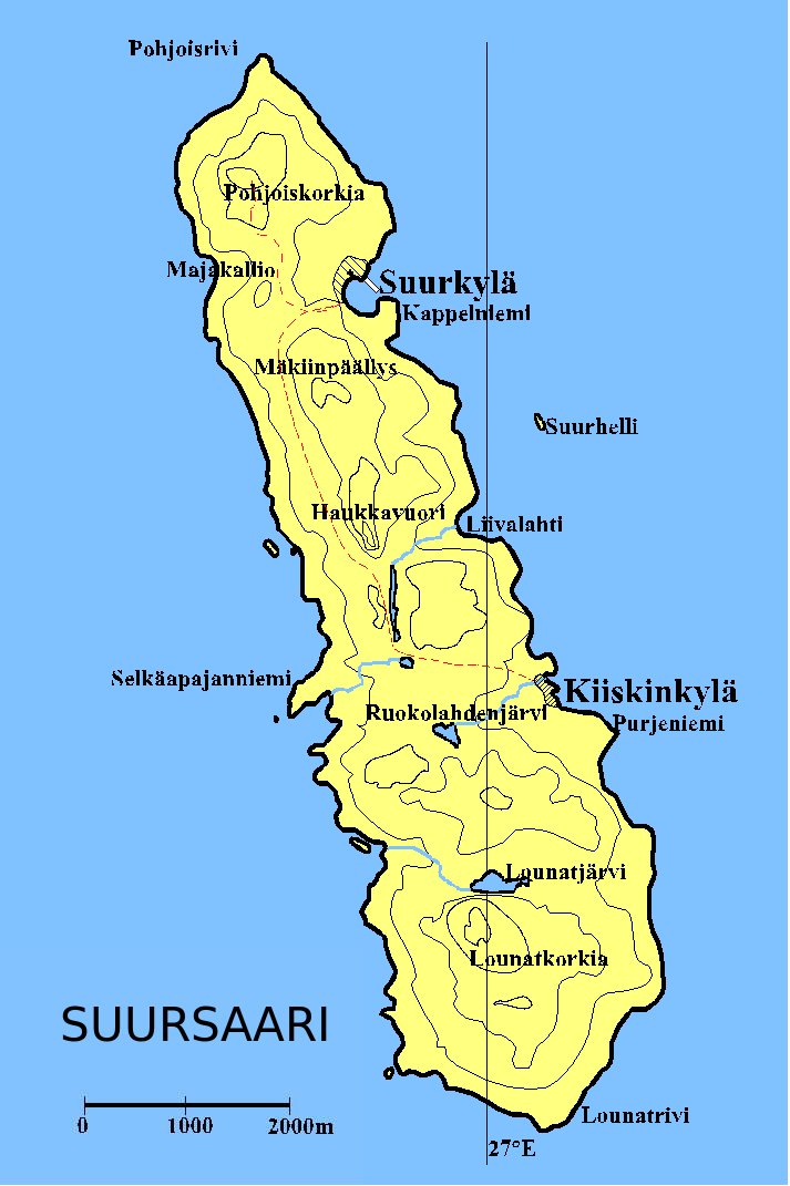 Map of Hogland island, created with Adobe Designer 4.0 from an old topographic map. This is a Finnish translation of the original picture.